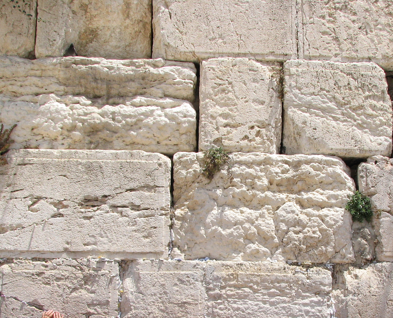 Western Wall (taken from women's section), Jerusalem